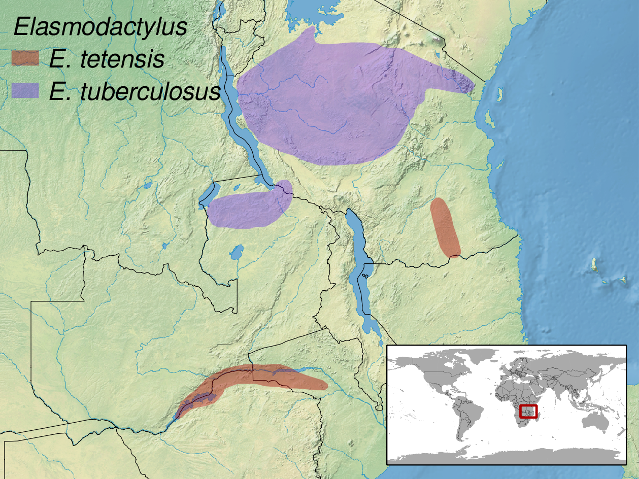 geographic distribution of the genus Elasmodactylus. Included species: Elasmodactylus tetensis and Elasmodactylus tuberculosus